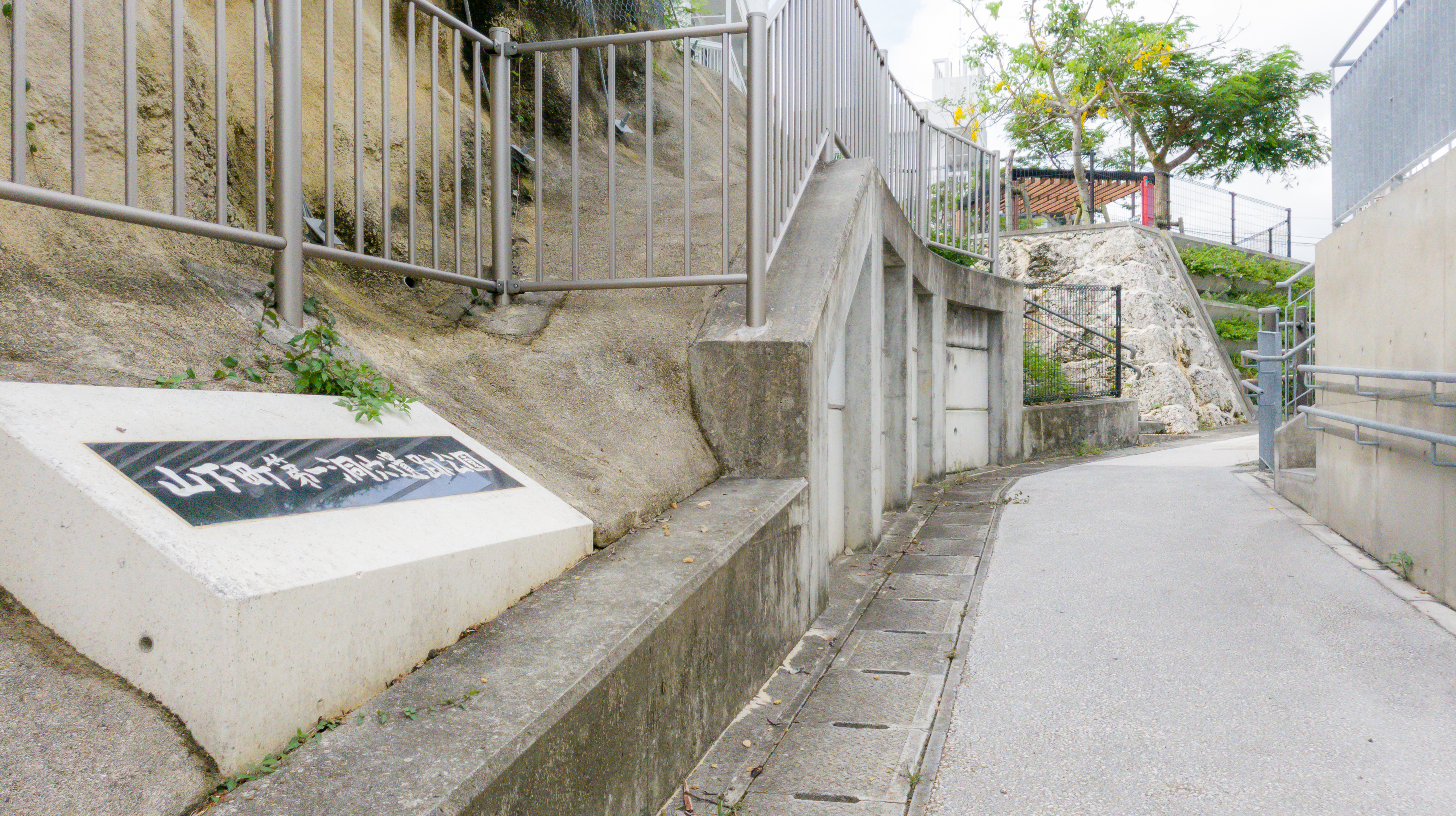 The pathway leading into Yamashita First Cave Site Park in Naha, Okinawa, Japan